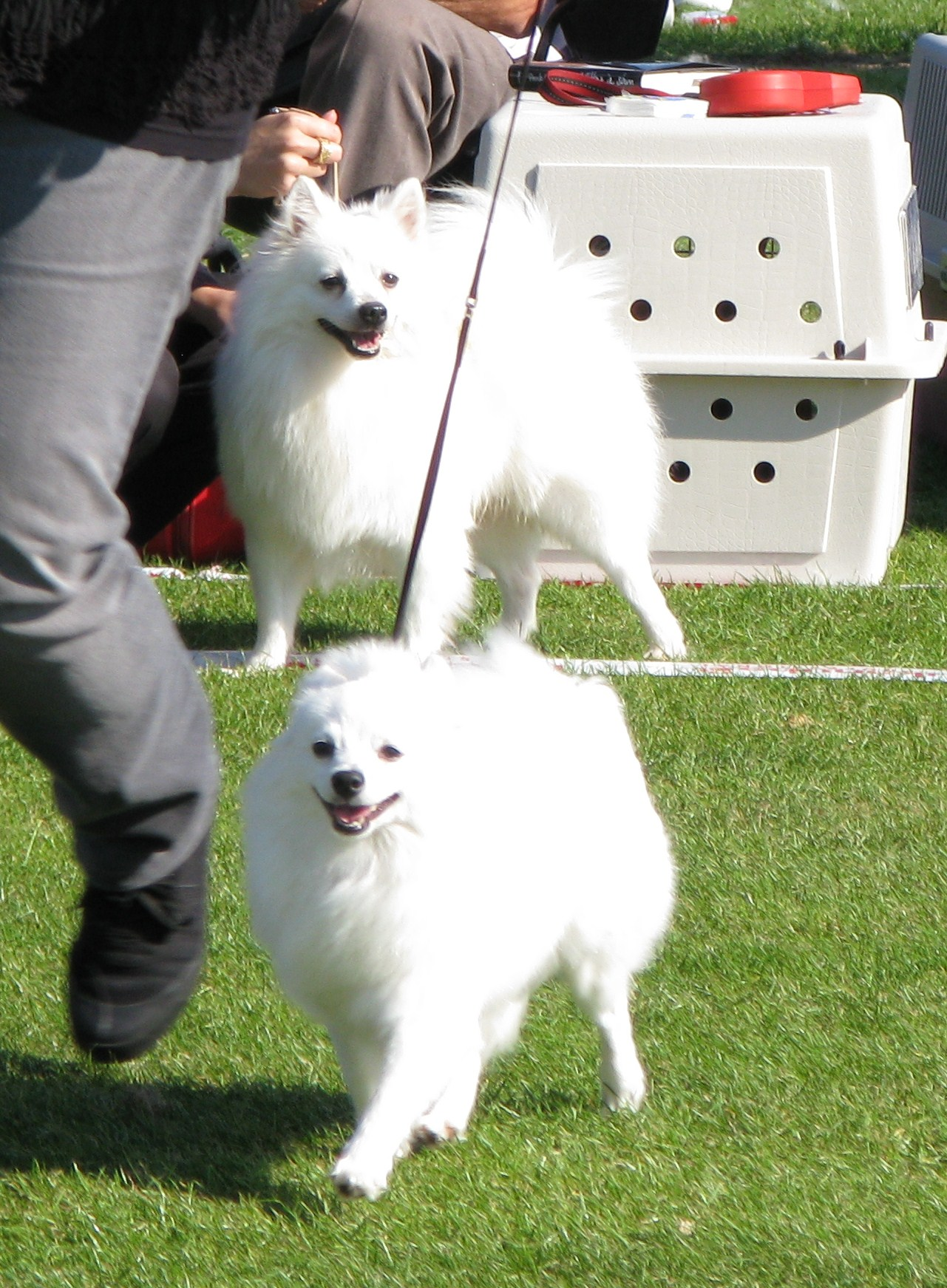 2 Volpino Italinos both owned by Mete Appel, Kennel Hedehuset, Denmark